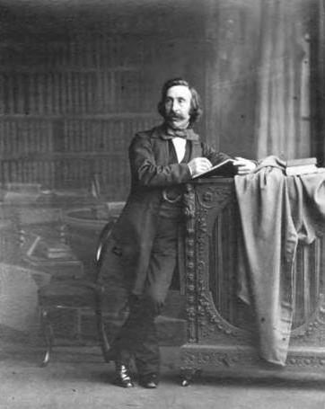 Portrait of John Henry Foley (1818–1874)